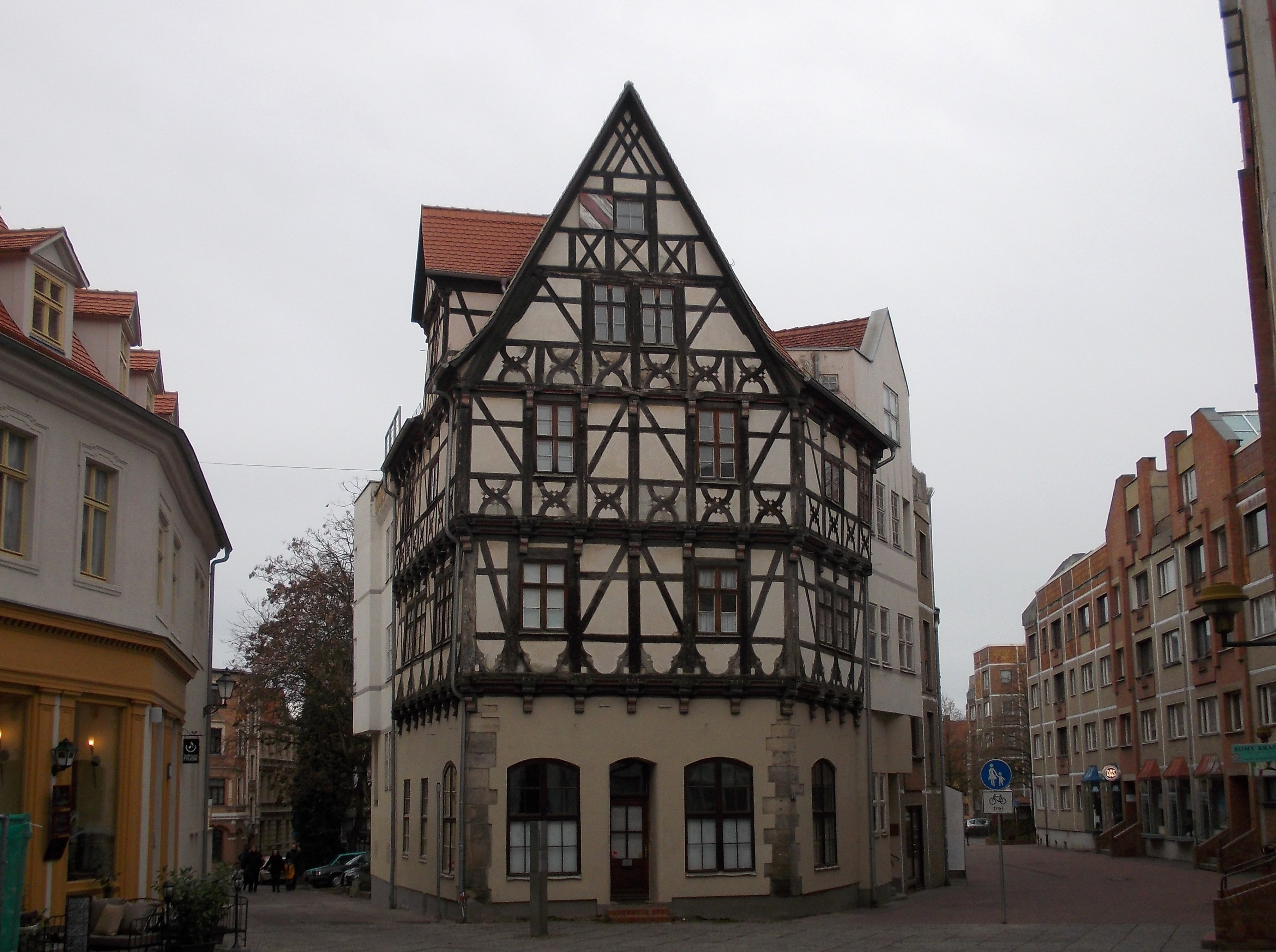 Half-timbered house between Graseweg and Grosse Klausstrasse in Halle/Saale (Saxony-Anhalt)